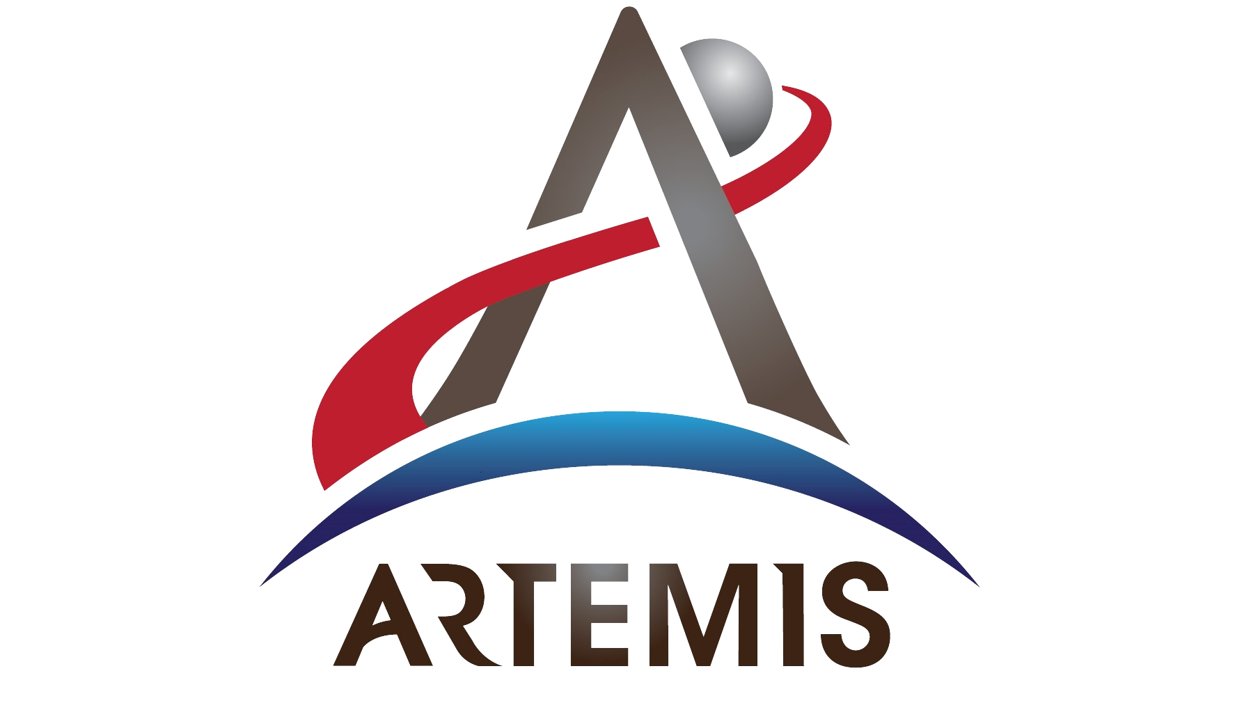 Logo of the Artemis program